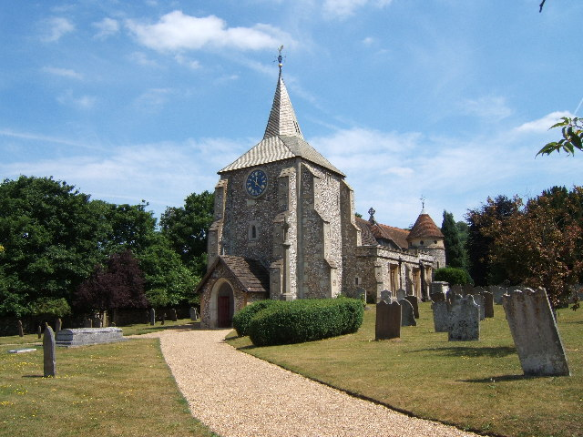 St Michael's Church, Micjleham